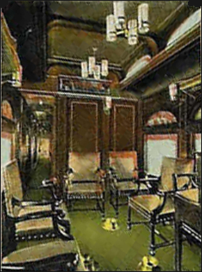 Empire United Railways - 1912 - Interior of car